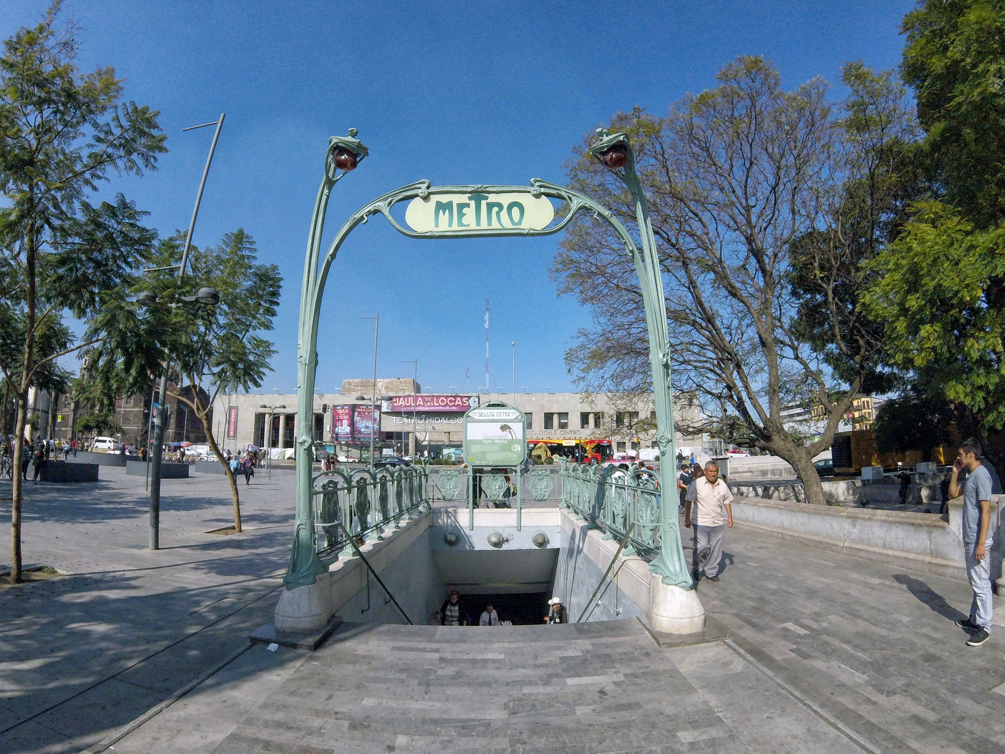 Guimard style entrance to Metro Bellas Artes station, Angela Peralta street, Mexico City Metro system.